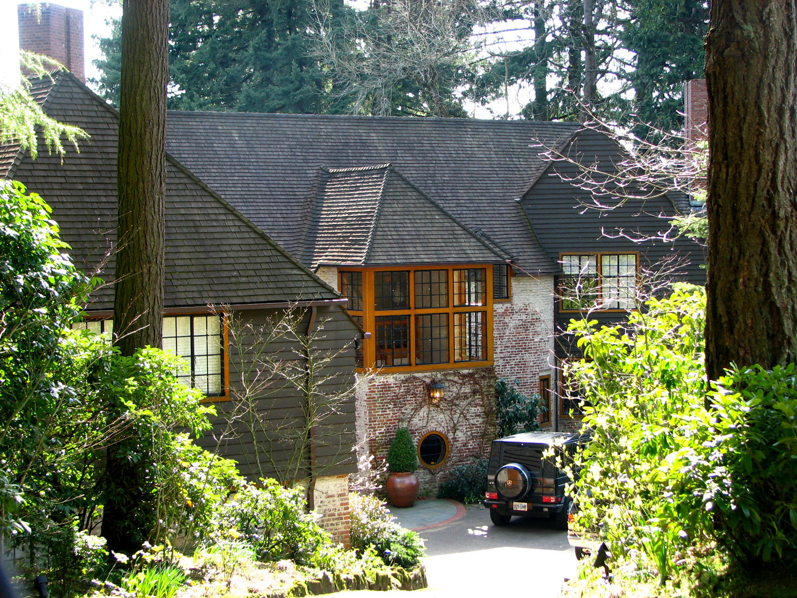 The historic Dr. Frank B. Kistner House (built 1931), located at 5400 Southwest Hewett Boulevard in Portland, Oregon, United States, is listed on the US National Register of Historic Places.